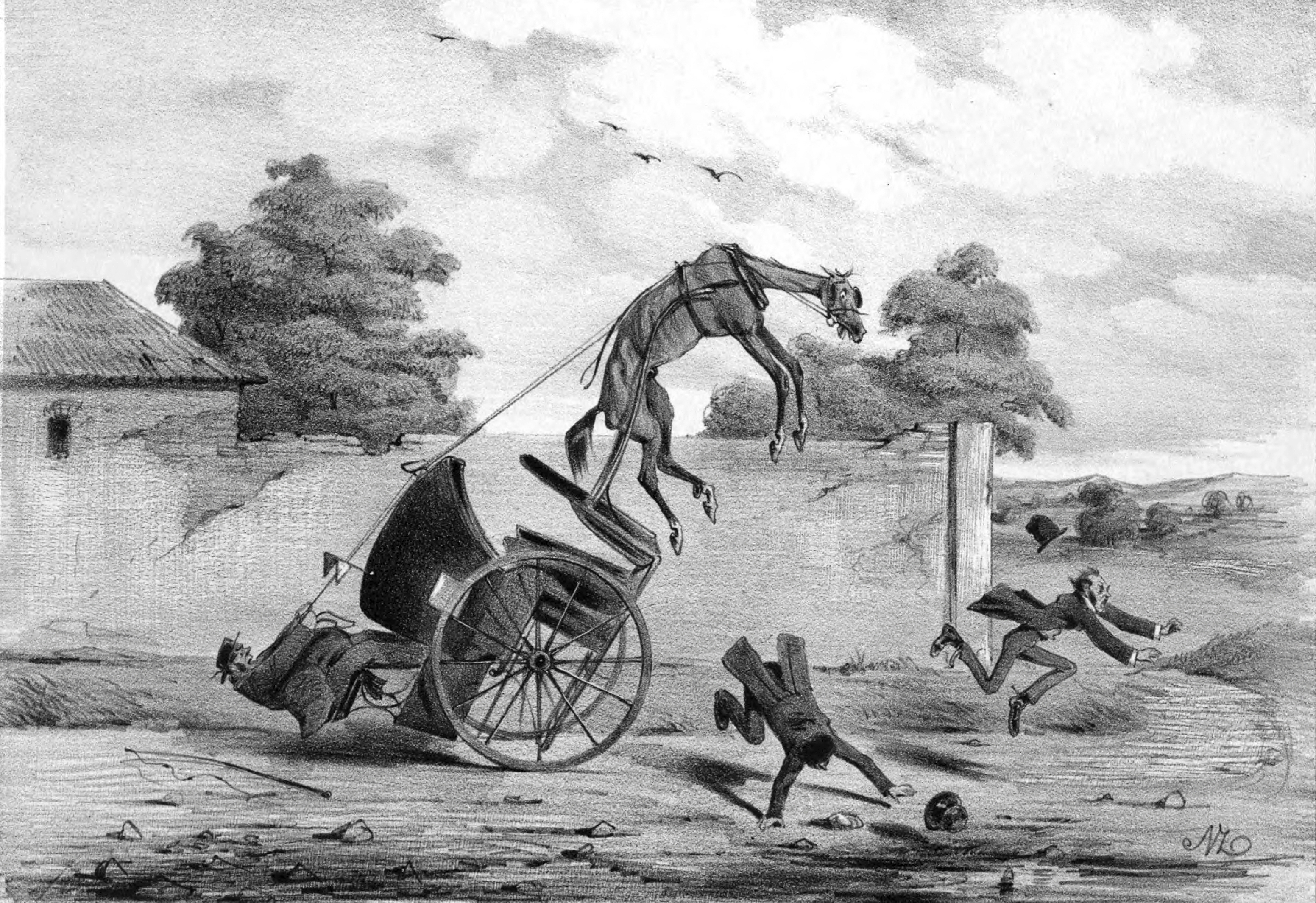 Satirical print from the series Contemporary Viennese Carriages